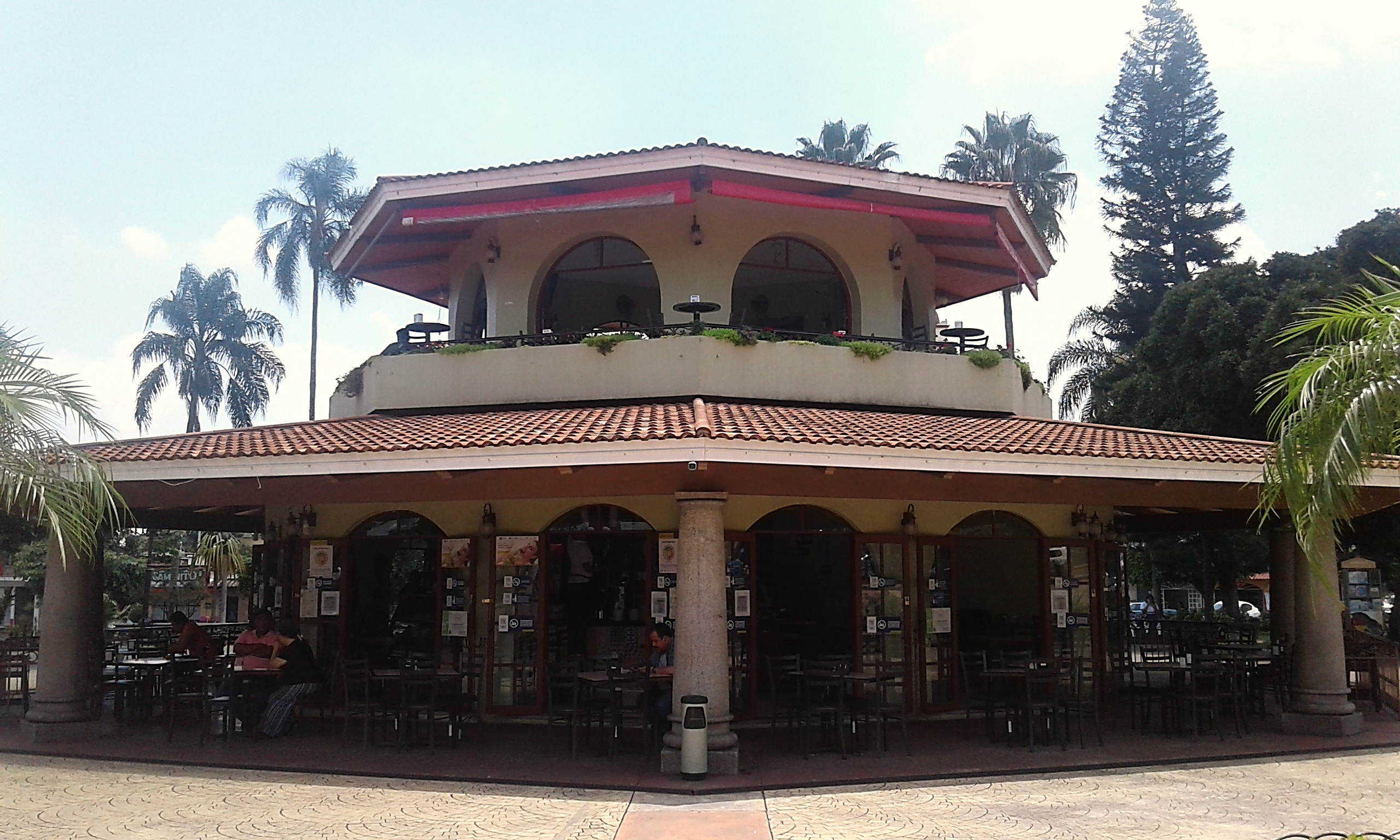 city ​​kiosk